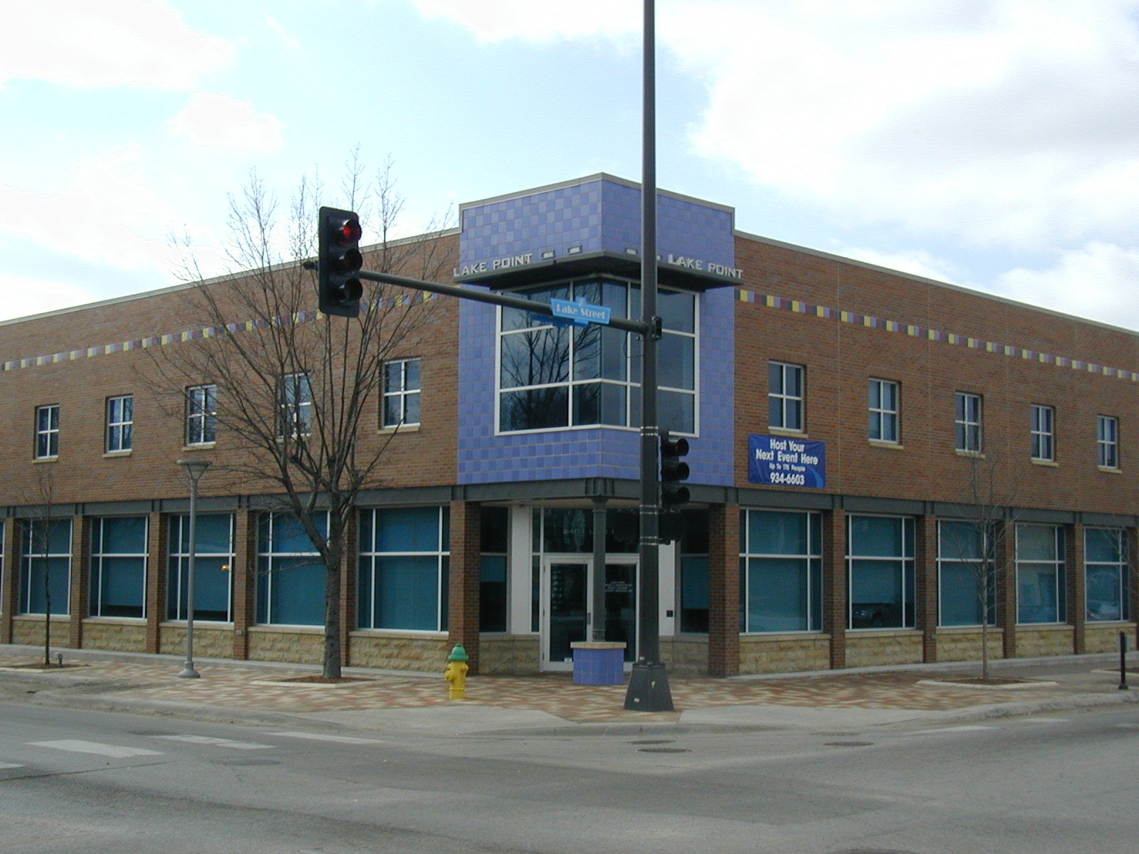 View of Family Housing Advisory Services' building, Lake Point at the SW corner of 24 & Lake St in Omaha NE. Family Housing has been serving the greater Omaha community since 1968.